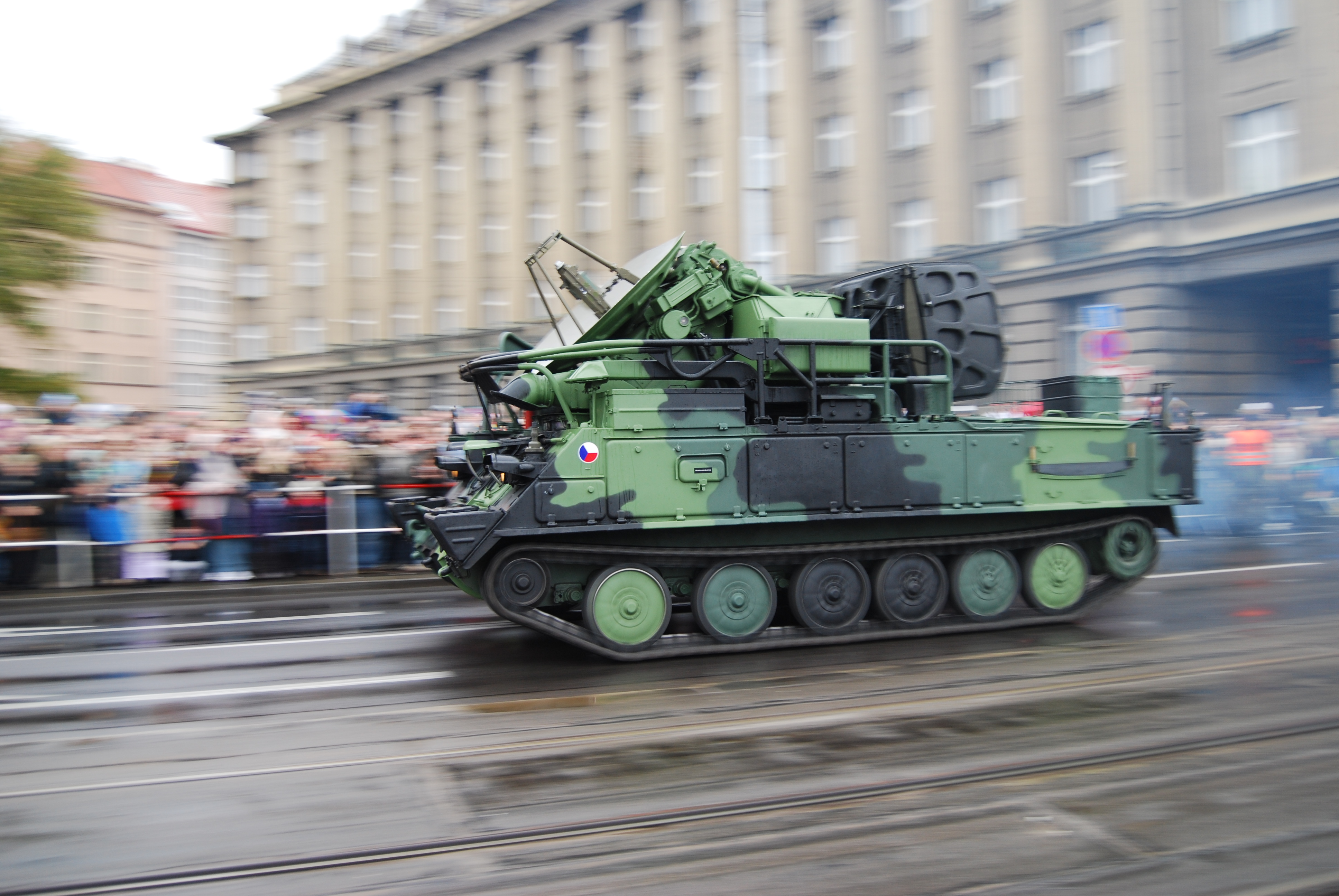 Military parade in Prague, Czech Republic as the 90th anniversary of independence of the Czechoslovakia. 2K12 KUB (radiolocator)